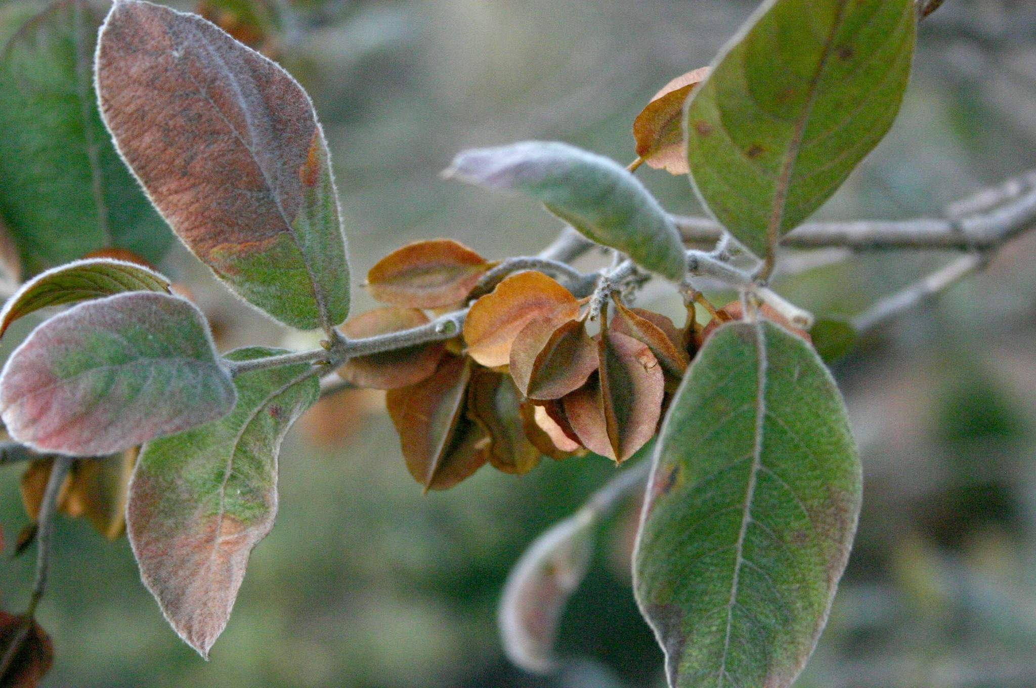 Fruit and foliage of a Velvet bushwillow, at Hamerkop Kloof, Magaliesberg, South Africa